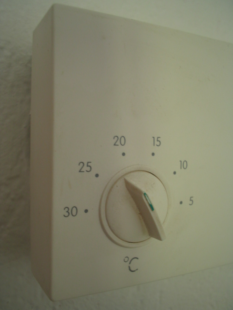 Thermostat dial in a living room.